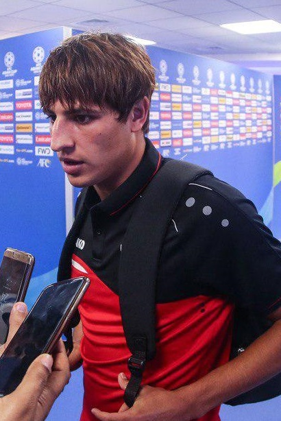 Mohanad Ali